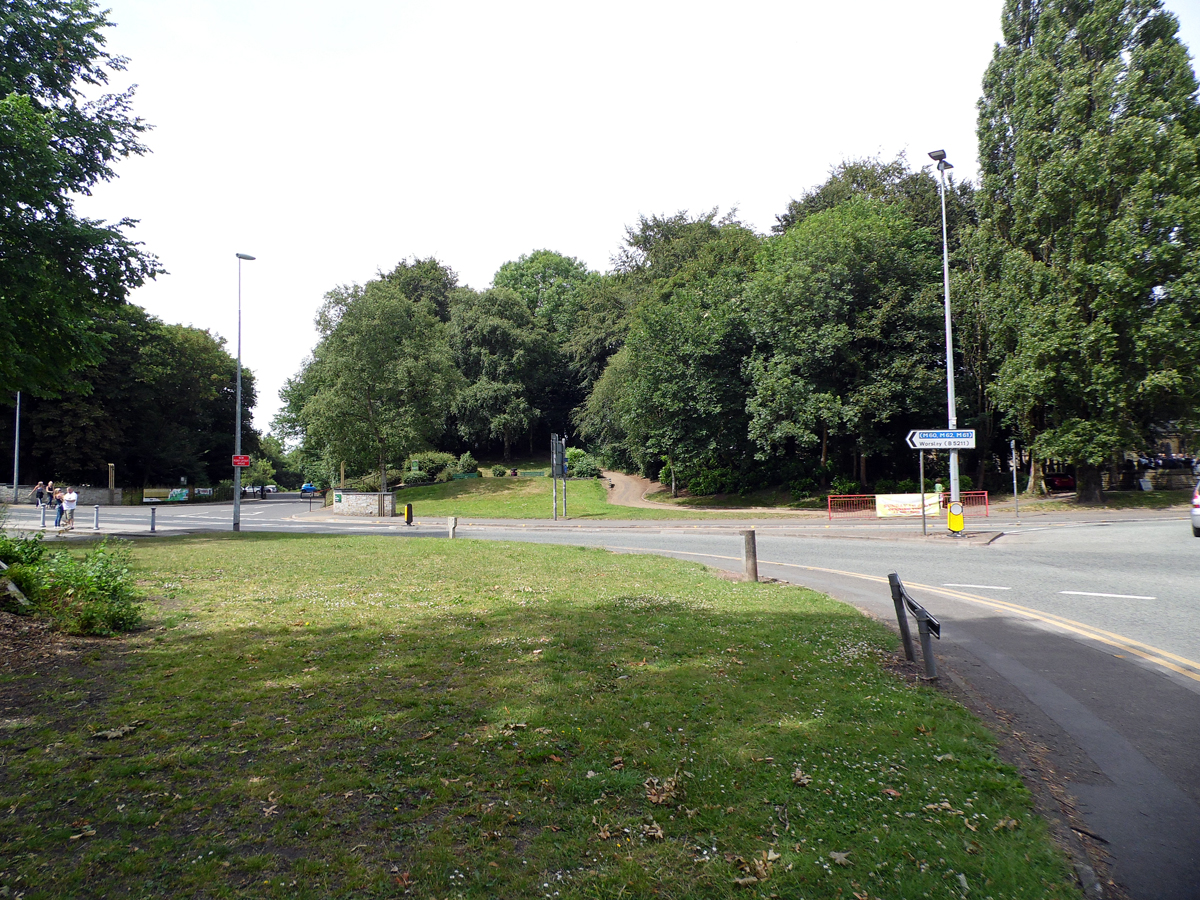 The high rise section where the station began, by the edge of the grassy area in the foreground has been completely eradicated, there are only a few features left that show the station was ever here. The concrete and brick base of a storage shed can be found a little further along the path.